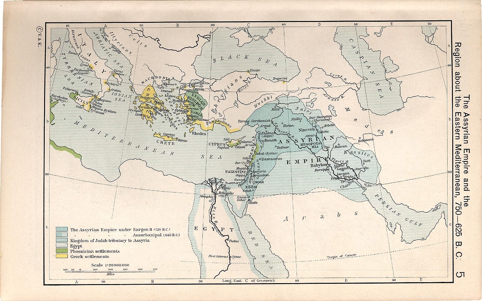 The Assyrian Empire and the Region about the Eastern Mediterranean, 750-625 B.C.. Historical Atlas by William R. Shepherd, 1911. Courtesy of the University of Texas Libraries, The University of Texas at Austin. From The Historical Atlas by William R. Shepherd, 1911 edition